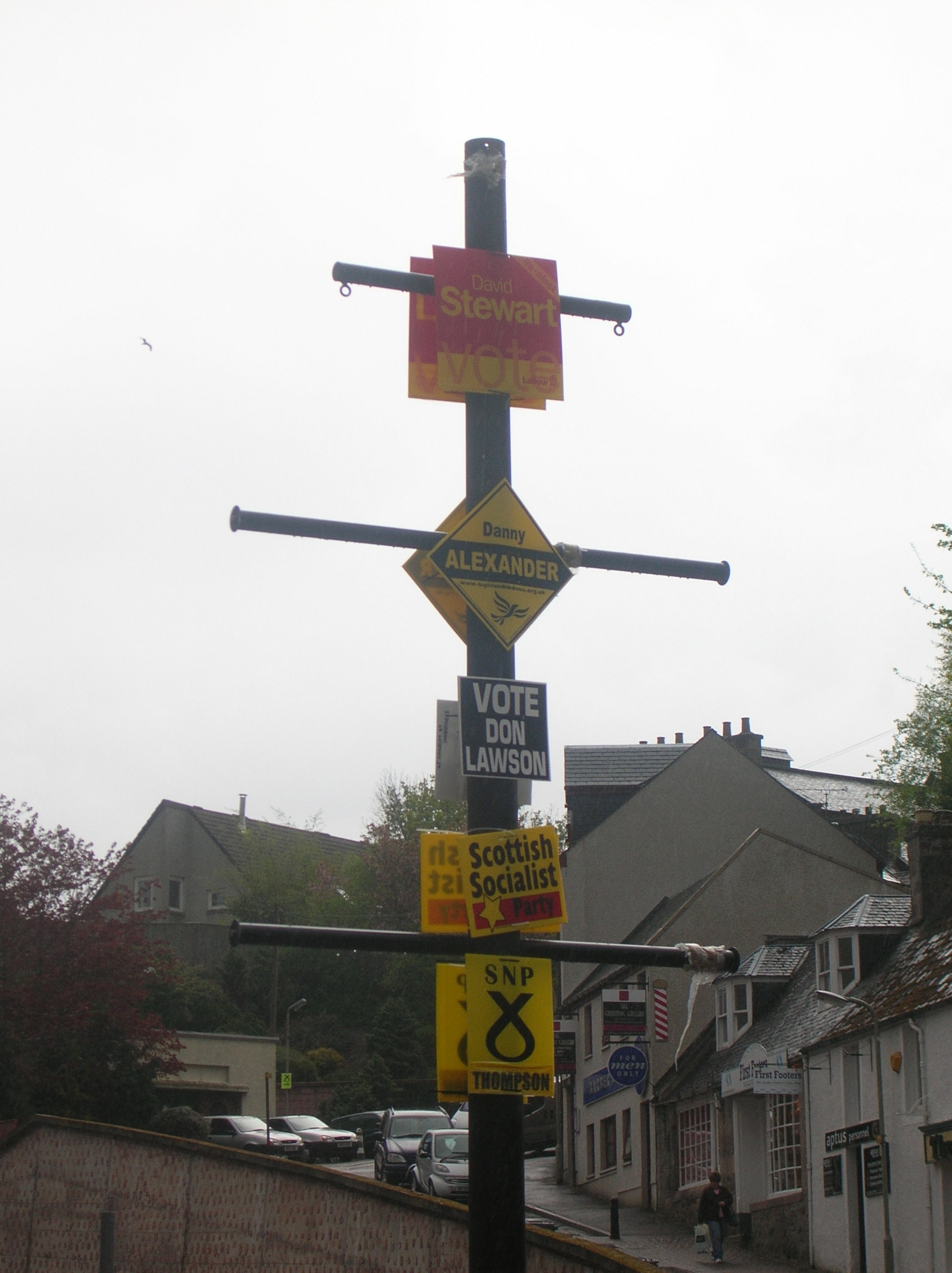 UK General Election, 2005 placards in Inverness, Nairn, Badenoch and Strathspey.